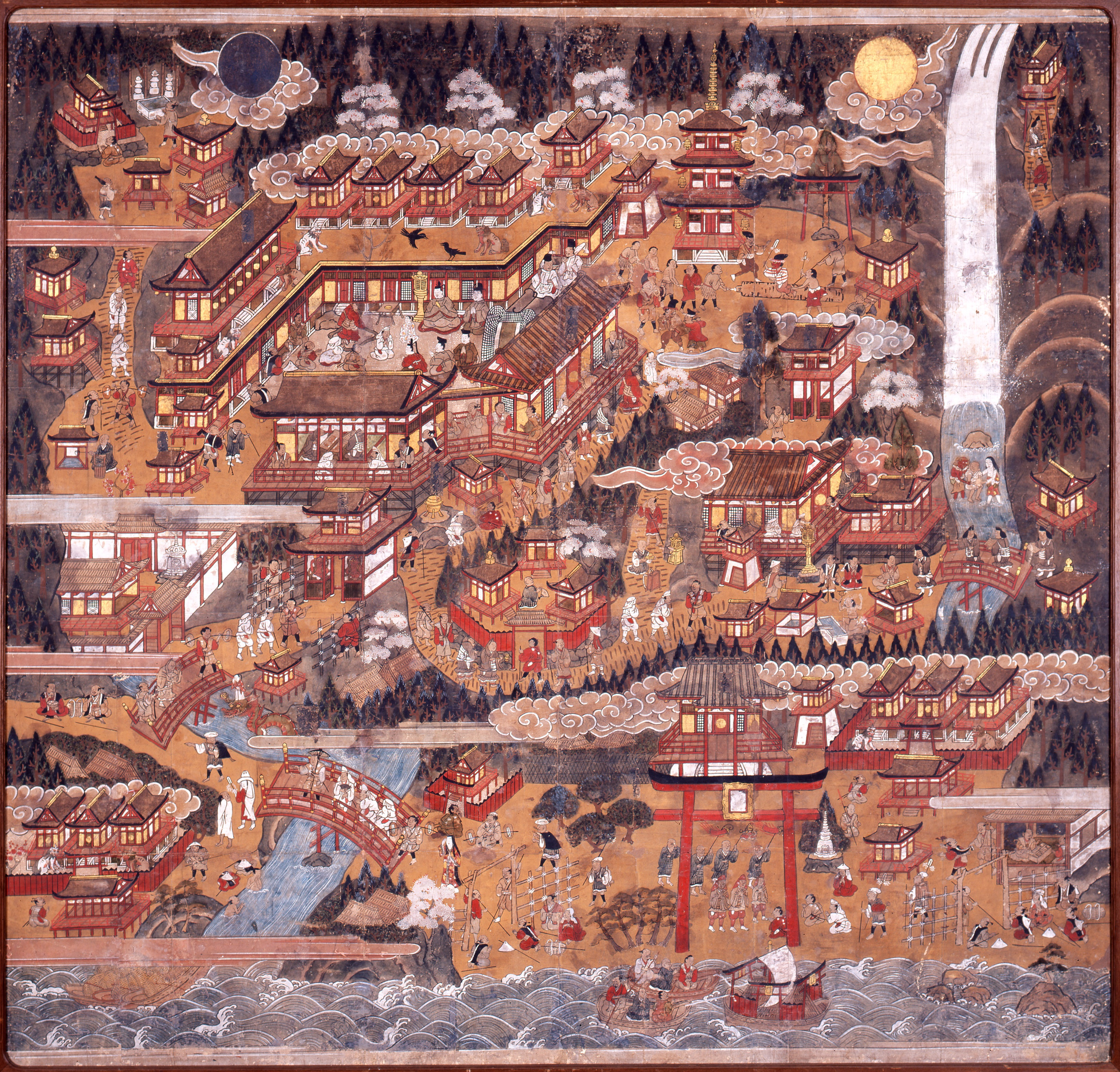 Kumano Nachi Mandala